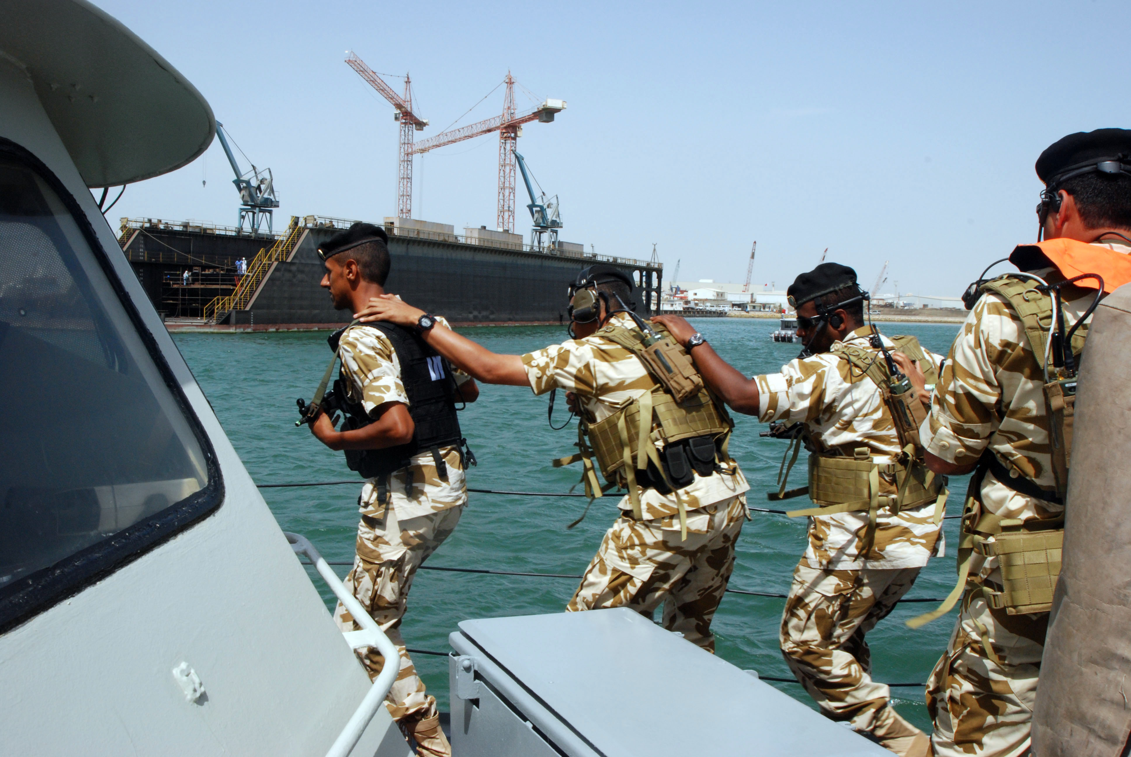 Royal Bahraini Navy Sailors conduct a visit, board, search and seizure exercise aboard the Bahraini navy fast attack craft-gun RBNS Al Jasrah (31) May 19, 2008, in the port of Manama, Bahrain. VIRIN: 080519-N-3251H-003